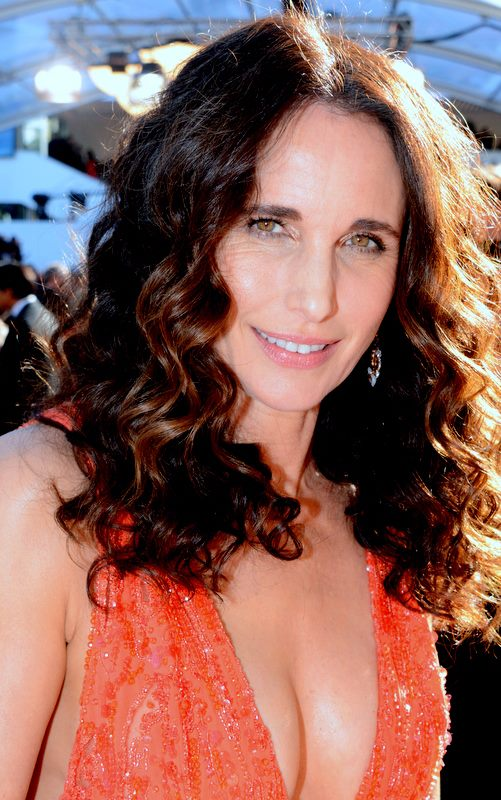 Andie McDowell at the Cannes film festival